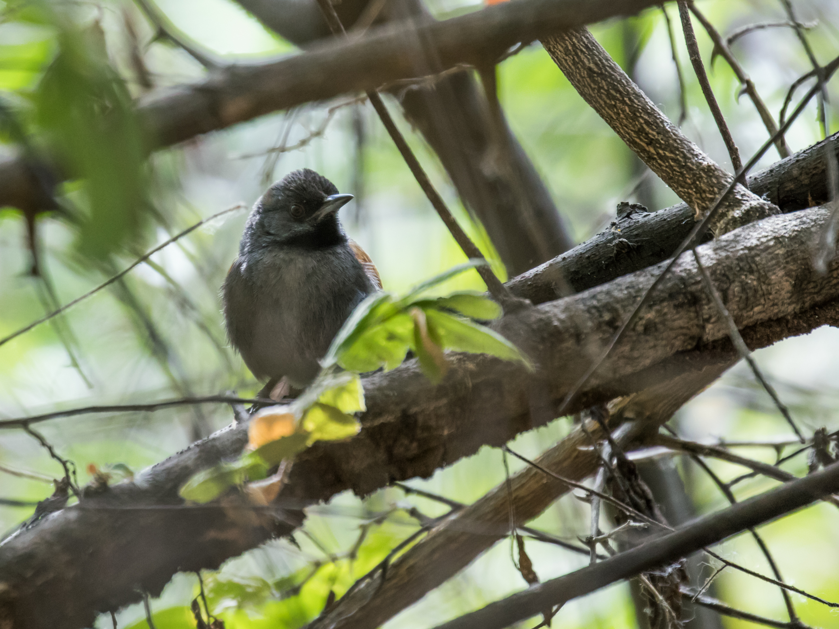 Blackish-headed Spinetail, Jorupe Reserve, Loja, Ecuador.